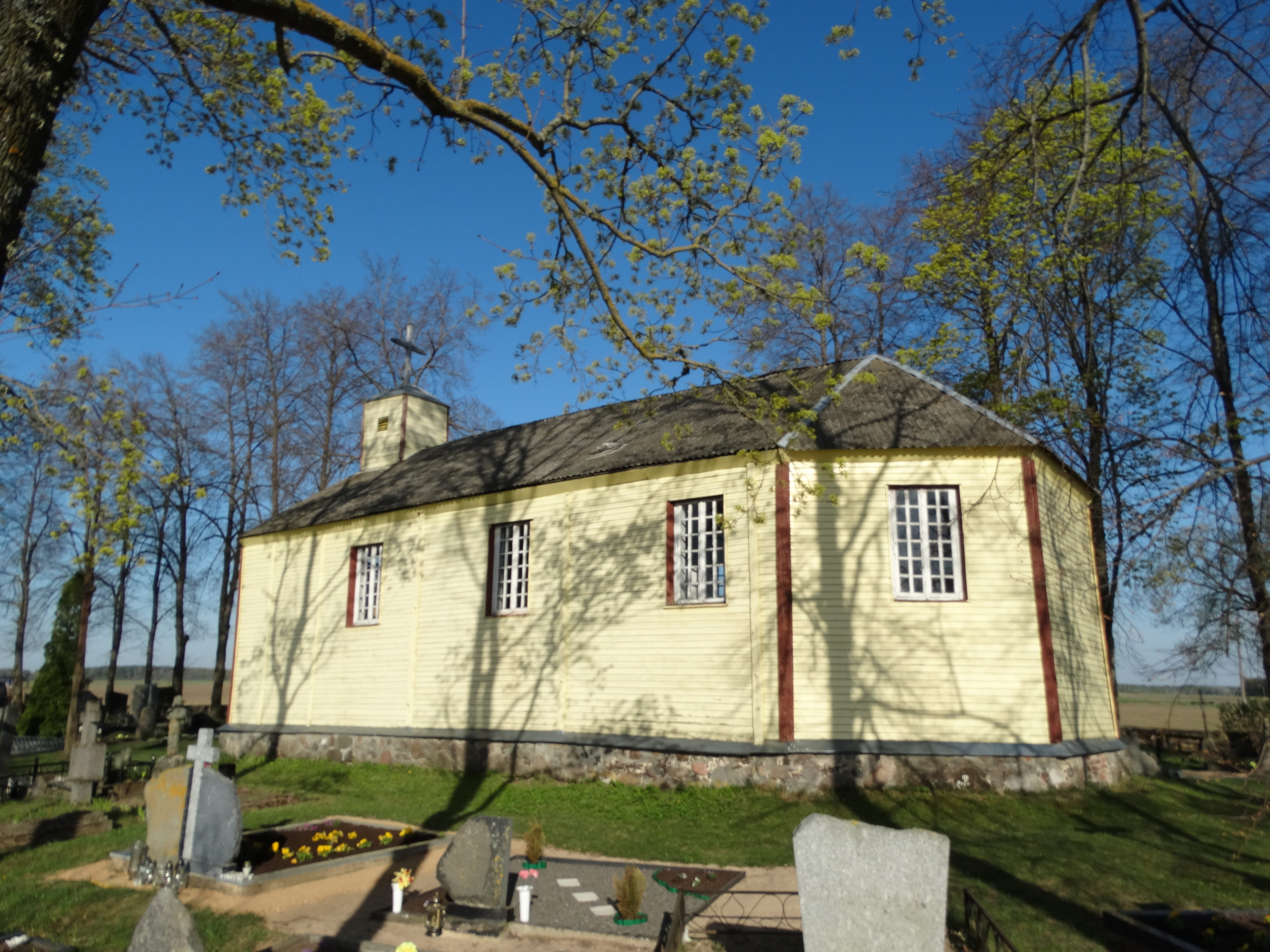 Chapel in Vismantai, Pakruojis District, Lithuania